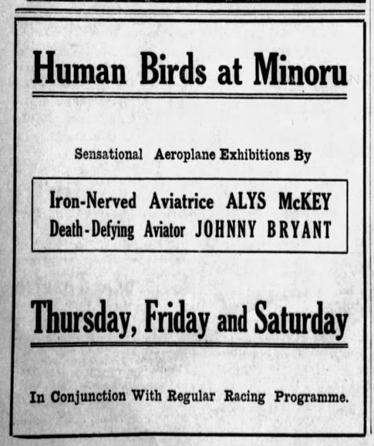 This poster from Richmond, British Columbia advertises a 1913 airshow featuring aviators Alys McKey and Johnny Bryant. McKey's flight made her the first woman to pilot a plane in Canada.